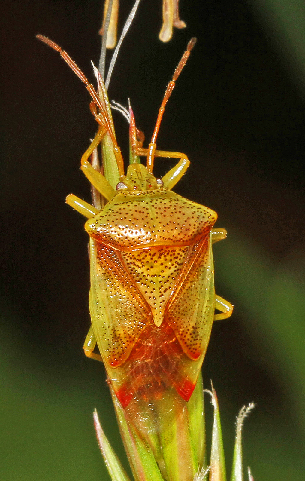 Red-cross Shield Bug - Elasmostethus cruciatus, Brighton Beach, Deep Cove, British Columbia.